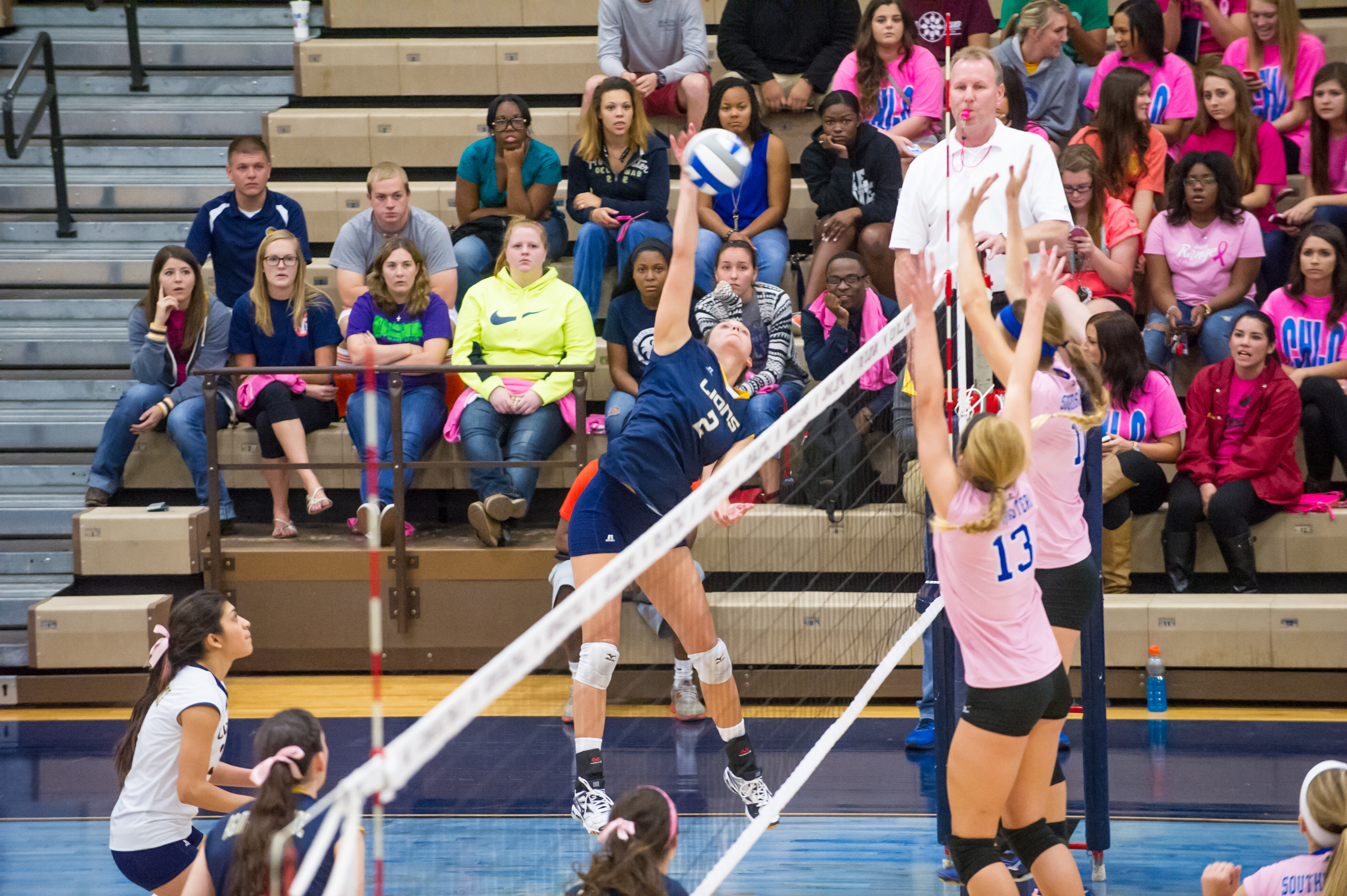 Athletics-Volleyball vs SEO-7144.jpg 2014–15 Texas A&M–Commerce Lions women's volleyball team